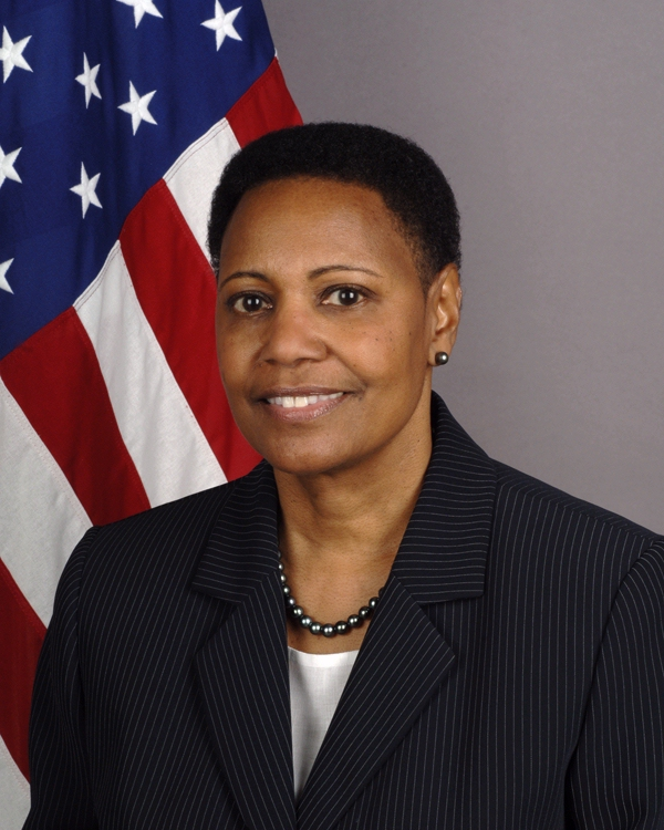 Gail Dennise Mathieu. As of 2008, the United States Ambassador to Namibia.